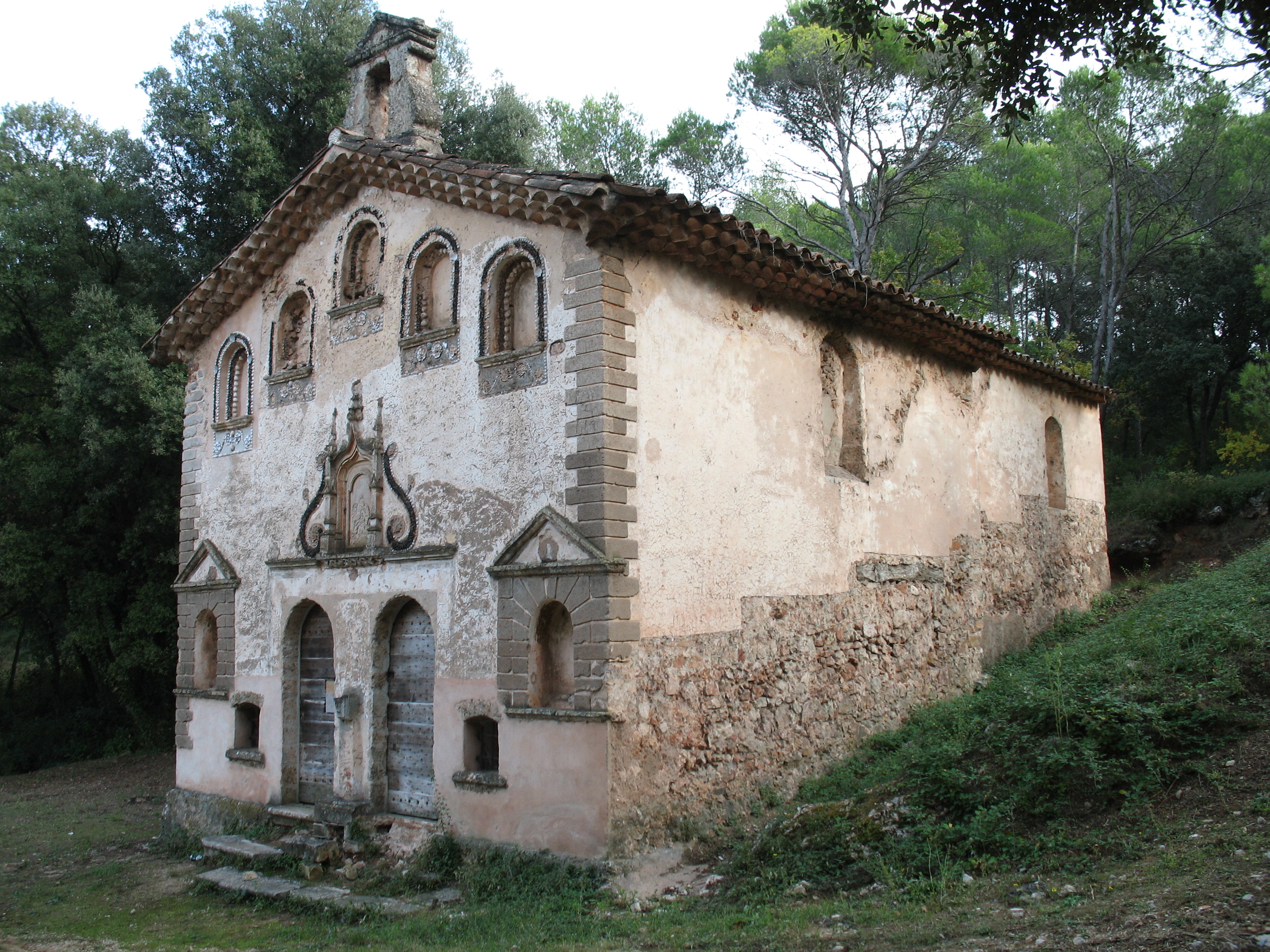 Notre-Dame-de-Pitié du Val general view .